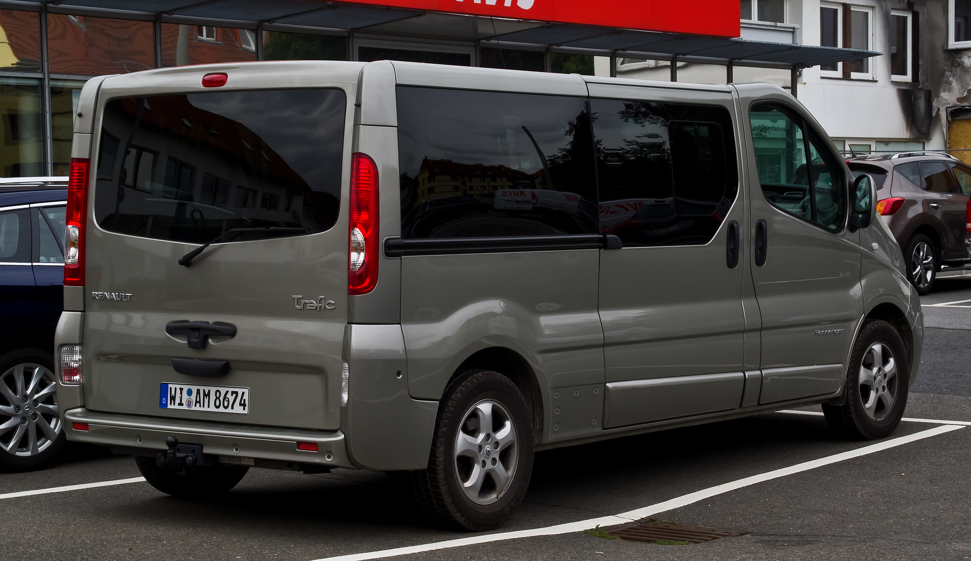 Renault Trafic Grand Passenger Black Edition dCi 115 (II, Facelift)